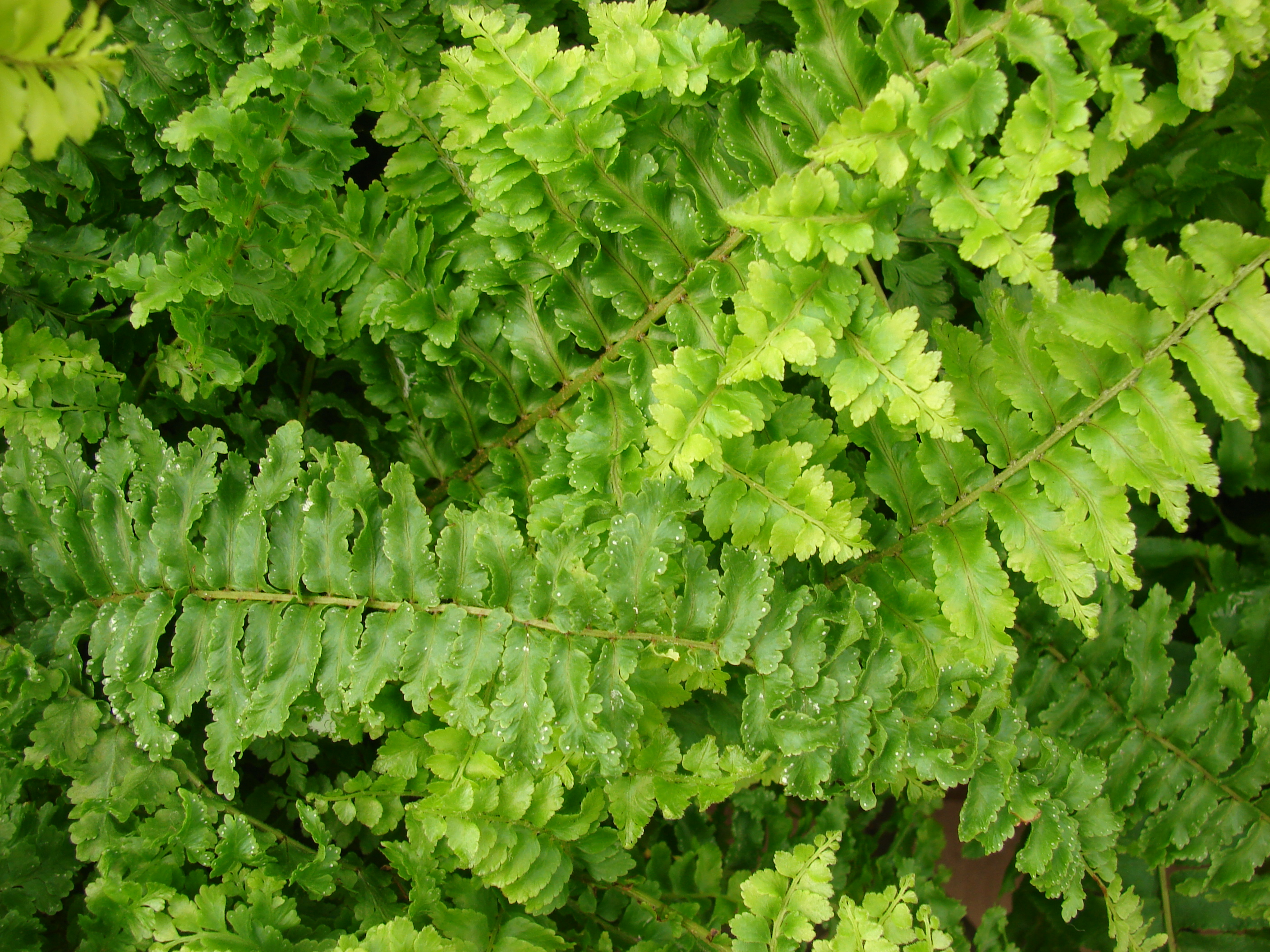 Nephrolepis exaltata (Fluffy Ruffles habit). Location: Maui, Walmart Kahului